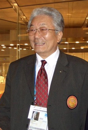 International Taekwon-Do Federation President Prof. Chang Ung